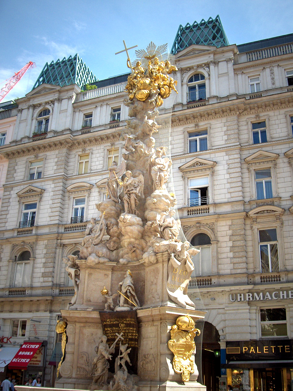 Pest column on the Graben, Vienna